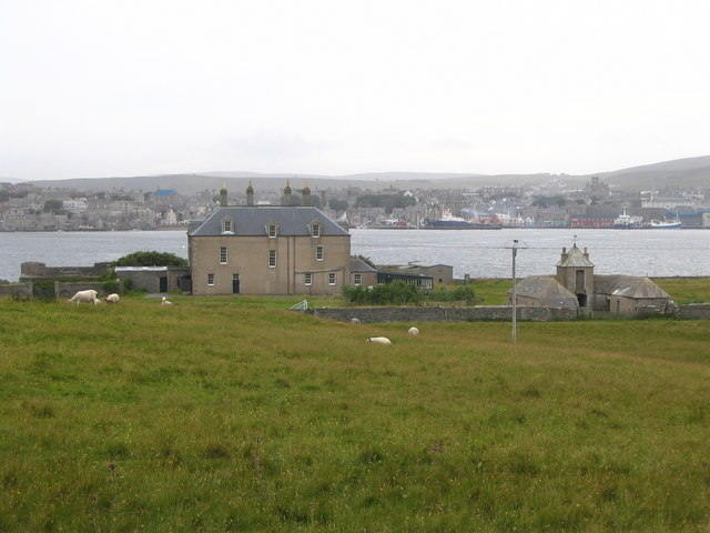 Gardie House on Bressay with Lerwick in the background, Shetland, Scotland